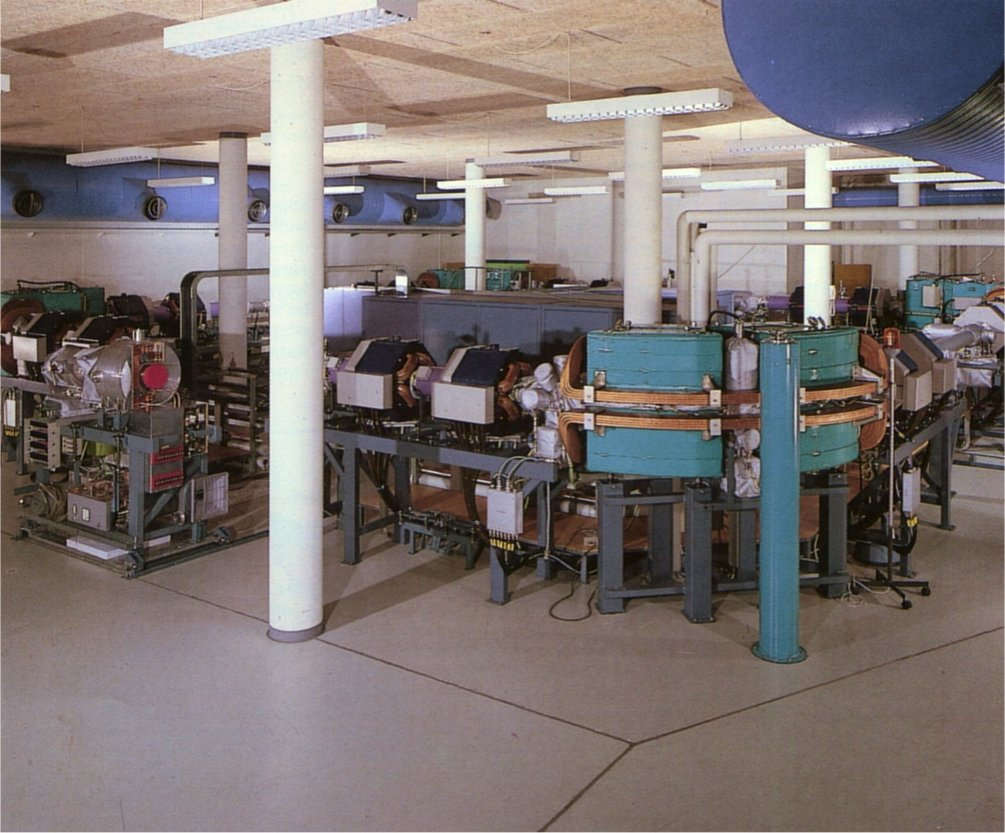 Photograph of the ASTRID storage ring in Aarhus, Denmark, taken in 1989 before the addition of the beamlines.